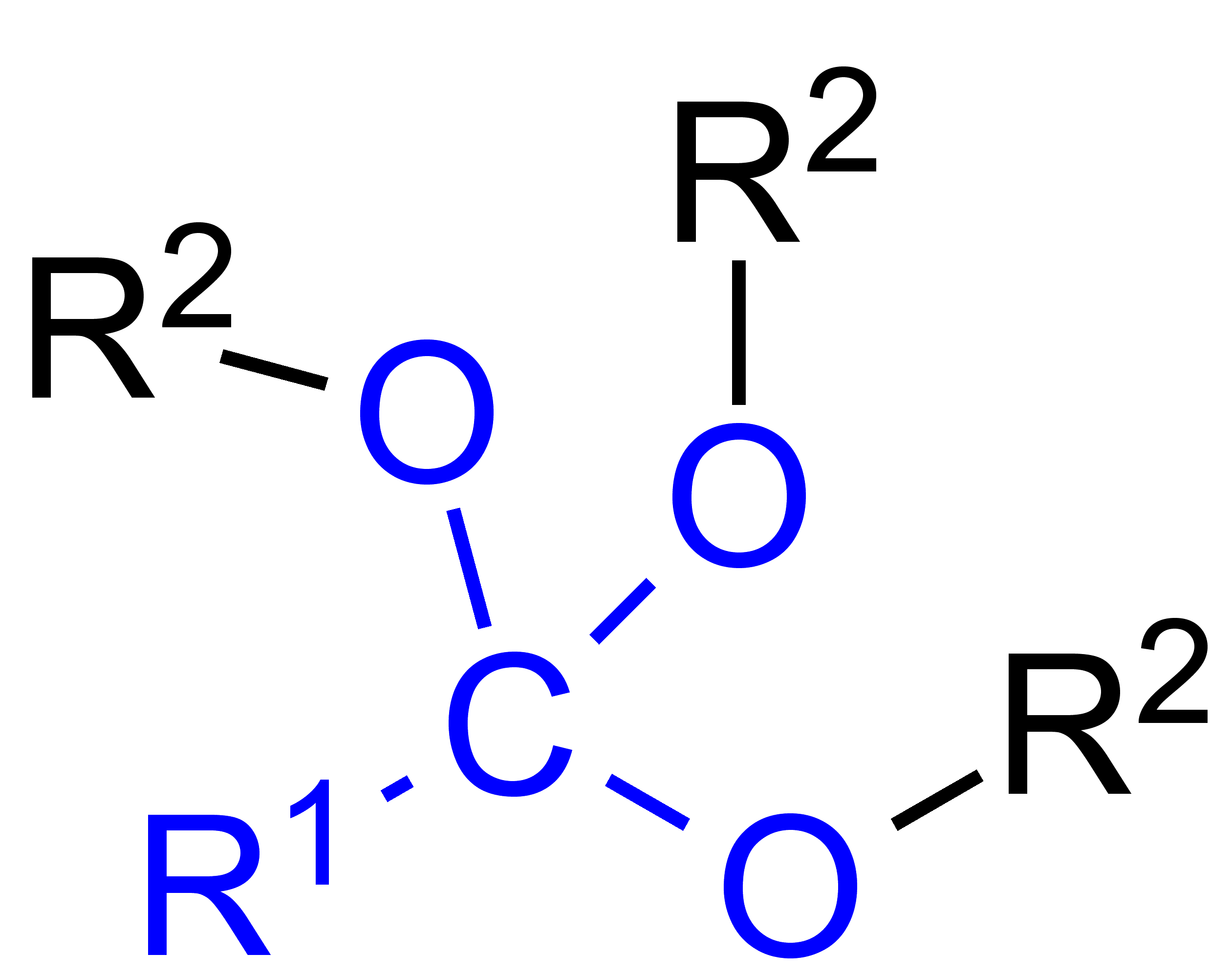 Orthoesters_General_Formulae